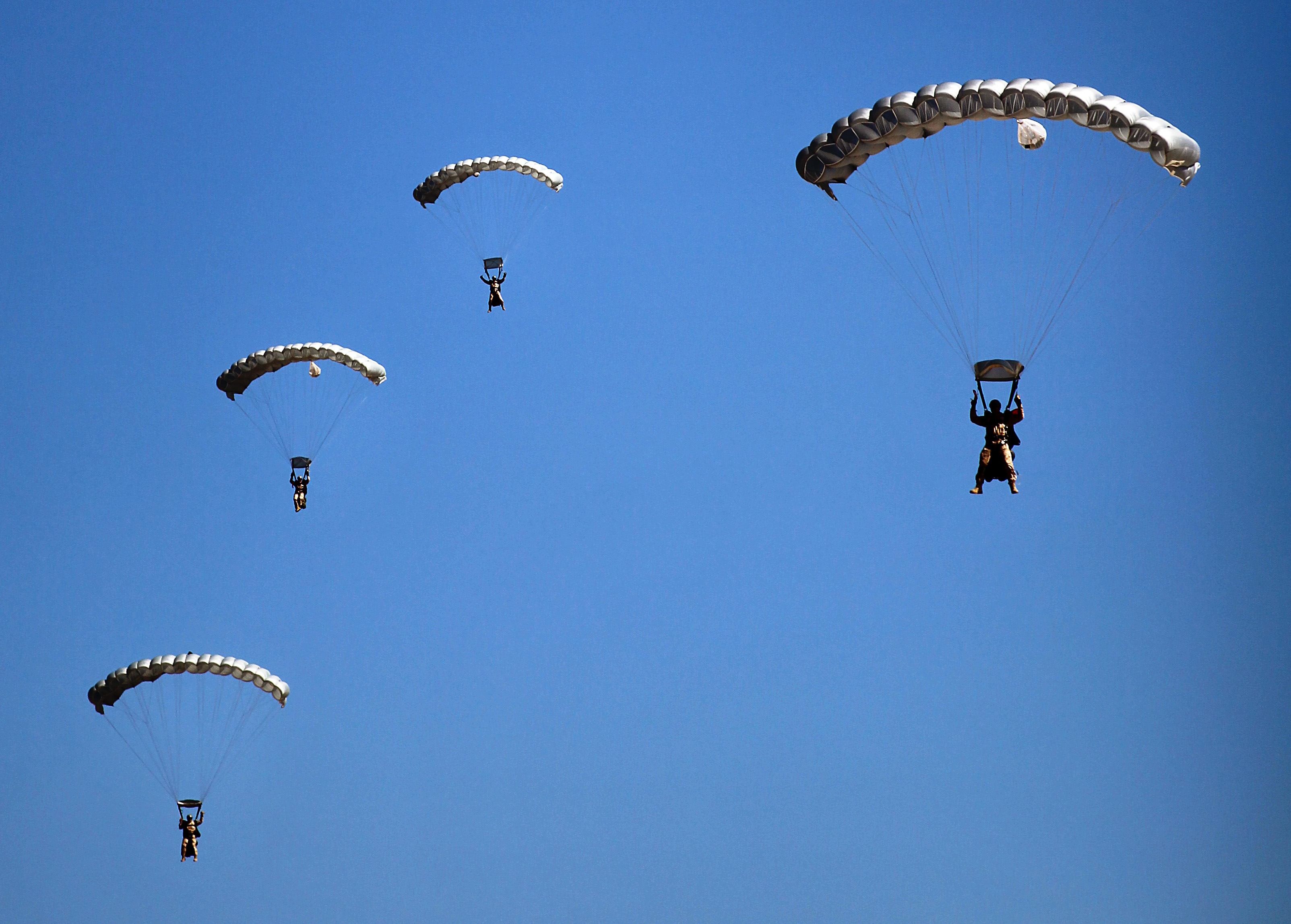 Reconnaissance Marines with Special Purpose Marine Air-Ground Task Force Crisis Response and paratroopers with the Spanish army descend to their objective at Naval Air Station Rota, Spain, Aug. 13, 2013, after jumping from an MV-22 Osprey during Exercise Bronze Sword 13.1. Bronze Sword was a joint, bilateral military free-fall exercise between U.S. and Spanish forces which increased military free-fall proficiency and currency. SP-MAGTF Crisis Response is a self-mobile and self-sustaining force whose mission is to respond across a full range of military operations to protect both U.S. and partner-nation security interests in the region, as well as strengthening partnerships throughout the U.S. European Command and U.S. Africa Command area of responsibility. (U.S. Marine Corps photo by Cpl. Michael Petersheim/Released)